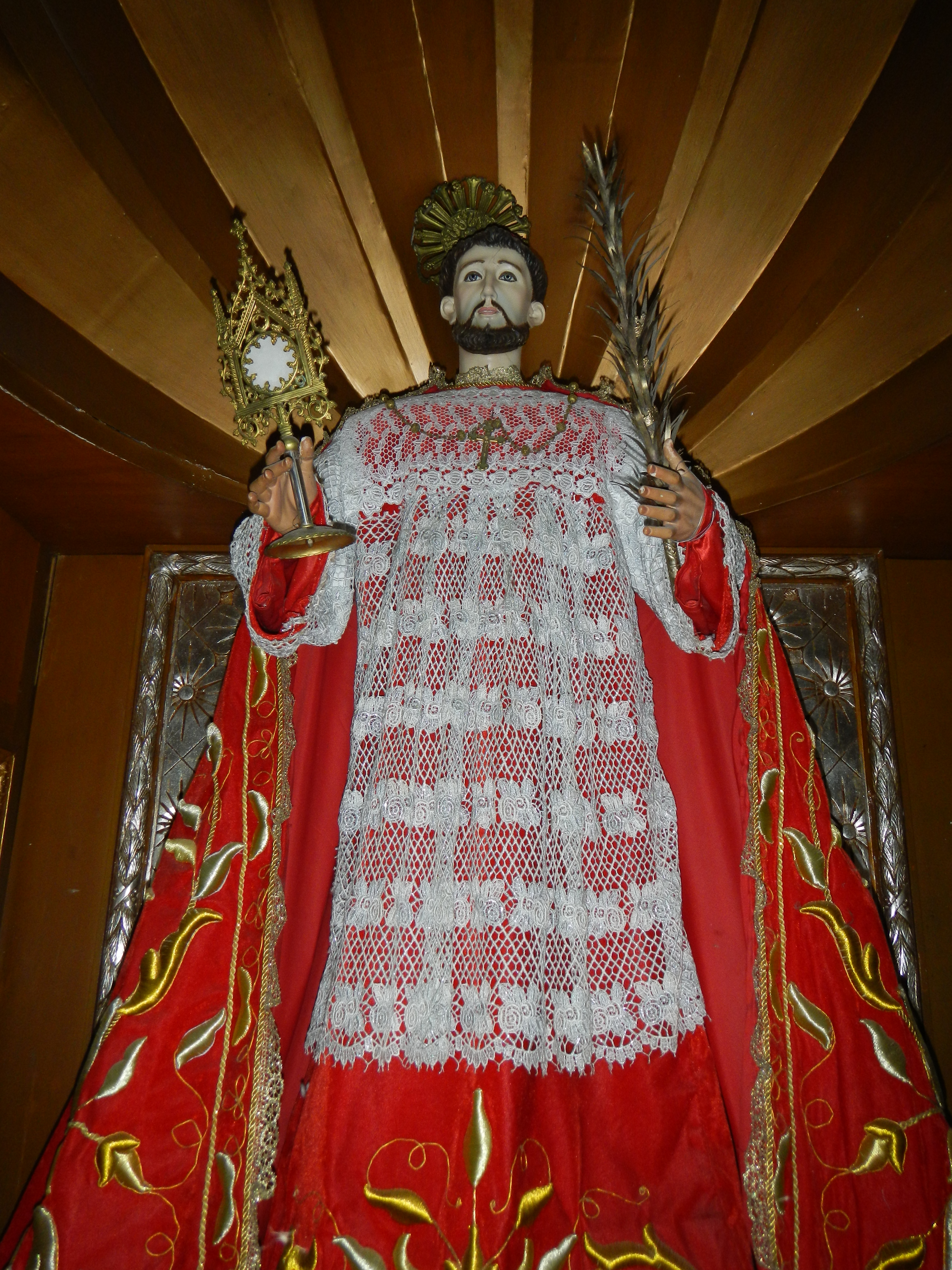 (F-1804) Saint Raymund Nonatus Parish Church of Moncada - Moncada, Tarlac[1] 2308 Tarlac, Philippines - Titular: St. Raymund Nonatus, August 31 Parish Priest: Father Ador Castroverde [2] Raymond Nonnatus, O. de M. (Catalan: Sant Ramon Nonat